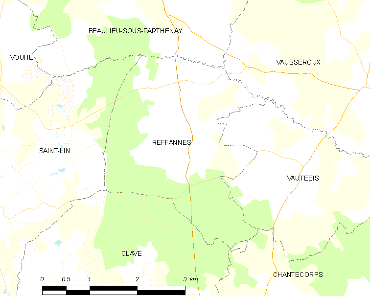 Map of French municipality Reffannes